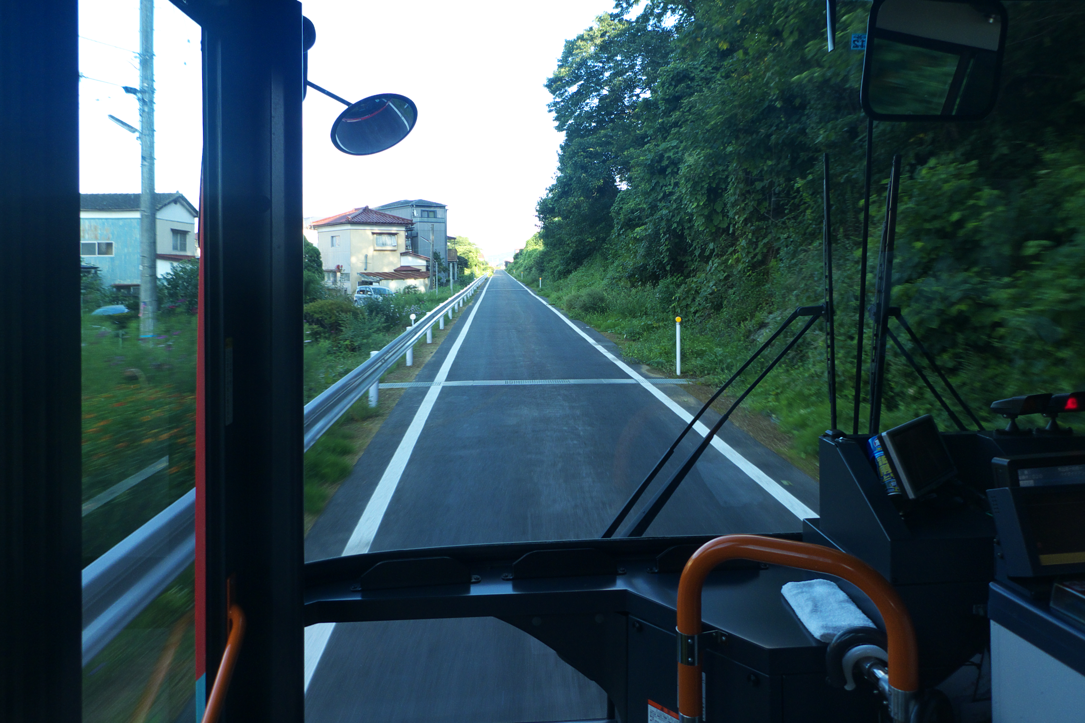 JR East Kesennuma Line BRT section between Kesennuma and Fudonosawa